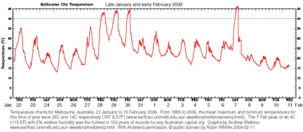 This is a 20 day graph of air temperature measured at the Melbourne, Australia weather station of the Bureau of Meteorology. The days are 2009-01-22 to 2009-02-10, including four days above 43°C. There was intense bushfire activity on these days, with the 7 February record of 46.4°C being the day of the most deadly fires in Australia's history. I also have also uploaded a larger image melbourne-temp-2009-02-10.png showing each day in greater detail. These images are based on the charts created by Andrew Watkins . I have his permission to use his images for this purpose and to upload the resulting images to , with a public domain licence. I will be sending the OTRS messages as soon as I have uploaded the images.